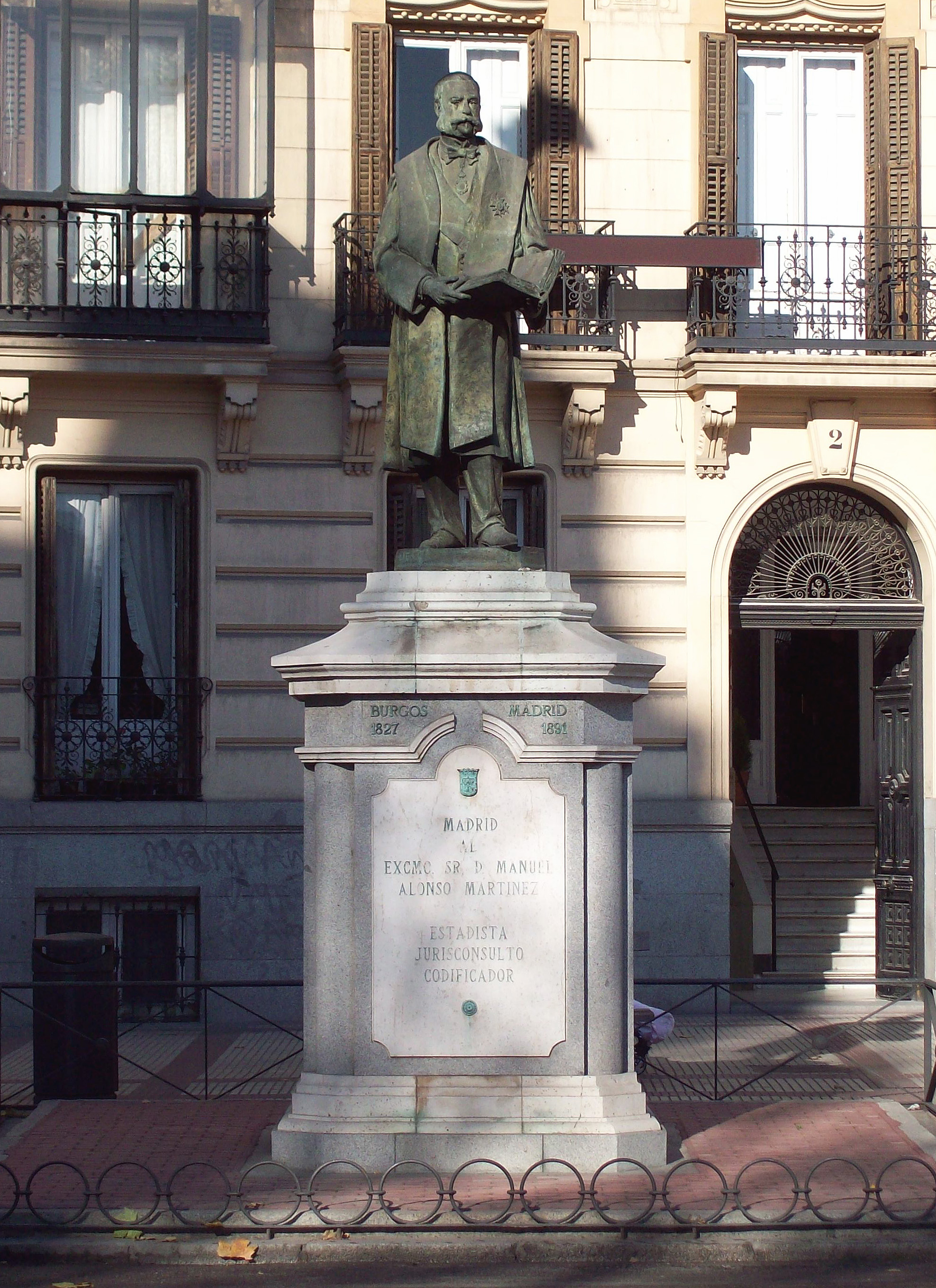 View of the monument to Manuel Alonso Martínez (1827–1891) at Plaza de Alonso Martínez (square) in Madrid (Spain). Made by sculptor José Luis Parés Parra and inaugurated on January 13, 1994.